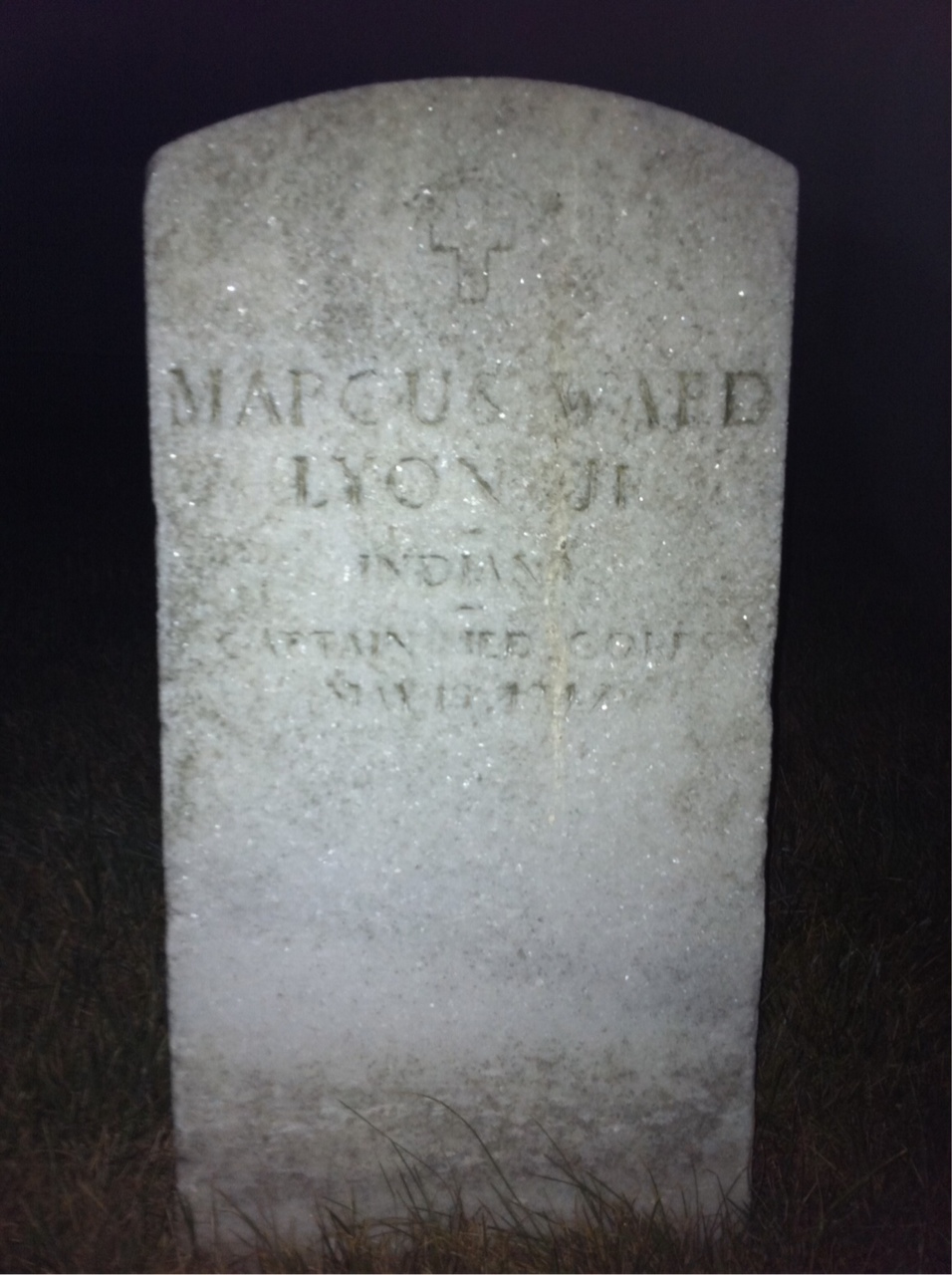 Headstone for Marcus Ward Lyon, Jr. at Arlington National Cemetery in Washington D.C. Death date: 05/19/1942 Interment date: 5/27/1942 Branch of service: US Army Section: 2 Grave: 4764